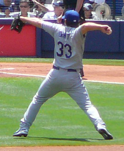 Blake DeWitt, a Major League Baseball player in America